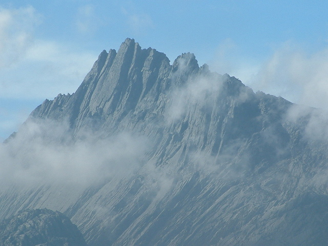 Puncak Jaya This image has been selected for the picture of the week at the Portal Indonesia on English Wikipedia.